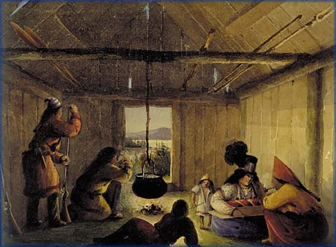 A watercolour by Robert Petley, c. 1850